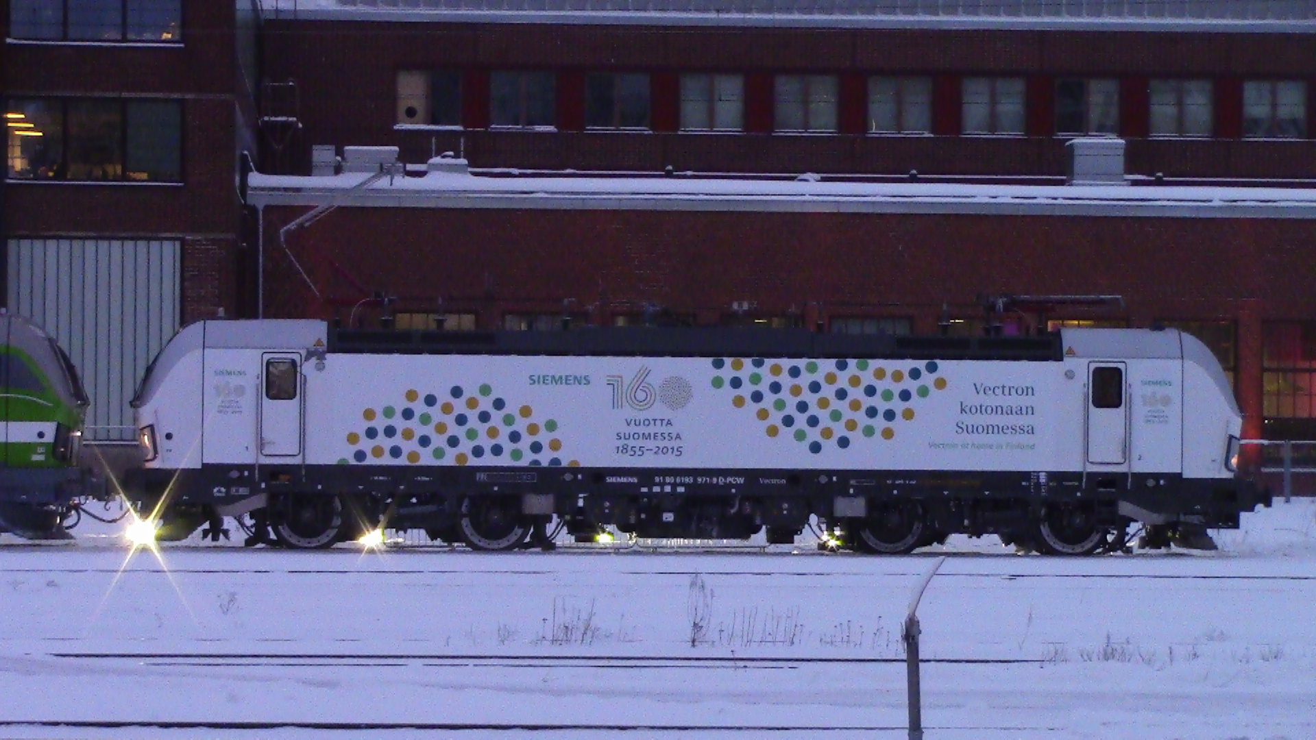 USr3, the prototype of VR Class Sr3 electric locomotive series at Rata2016 event in Turku.